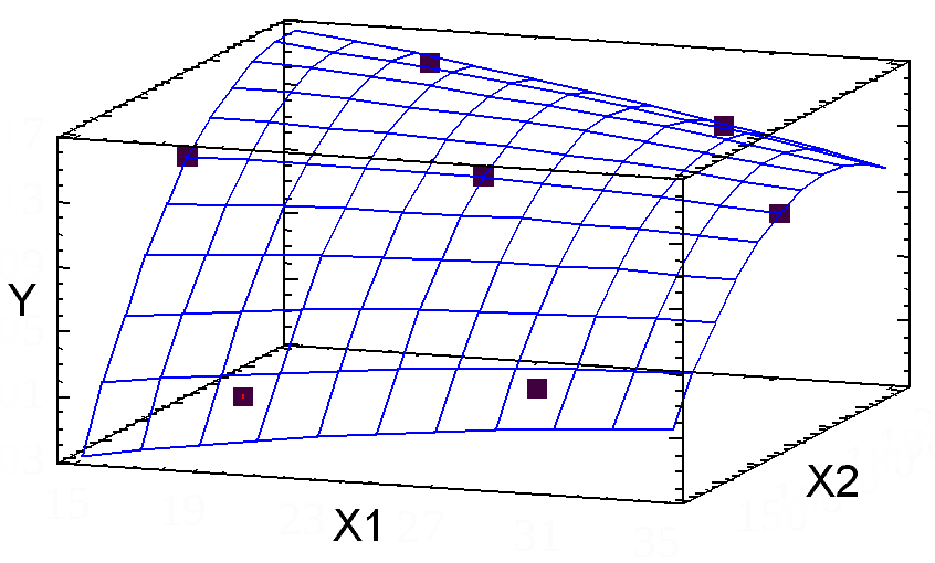 Design of experiments; Doehlert method used. 2 factors (X1, X2); 7 trials; Y: response. Matrix of the trials: X1 - X2 25 - 180 35 - 180 15 - 180 30 - 206 20 - 206 30 - 154 20 - 154 Estimated response surface; Y estimated for a 95% confidence level. Parabola effect with X2.